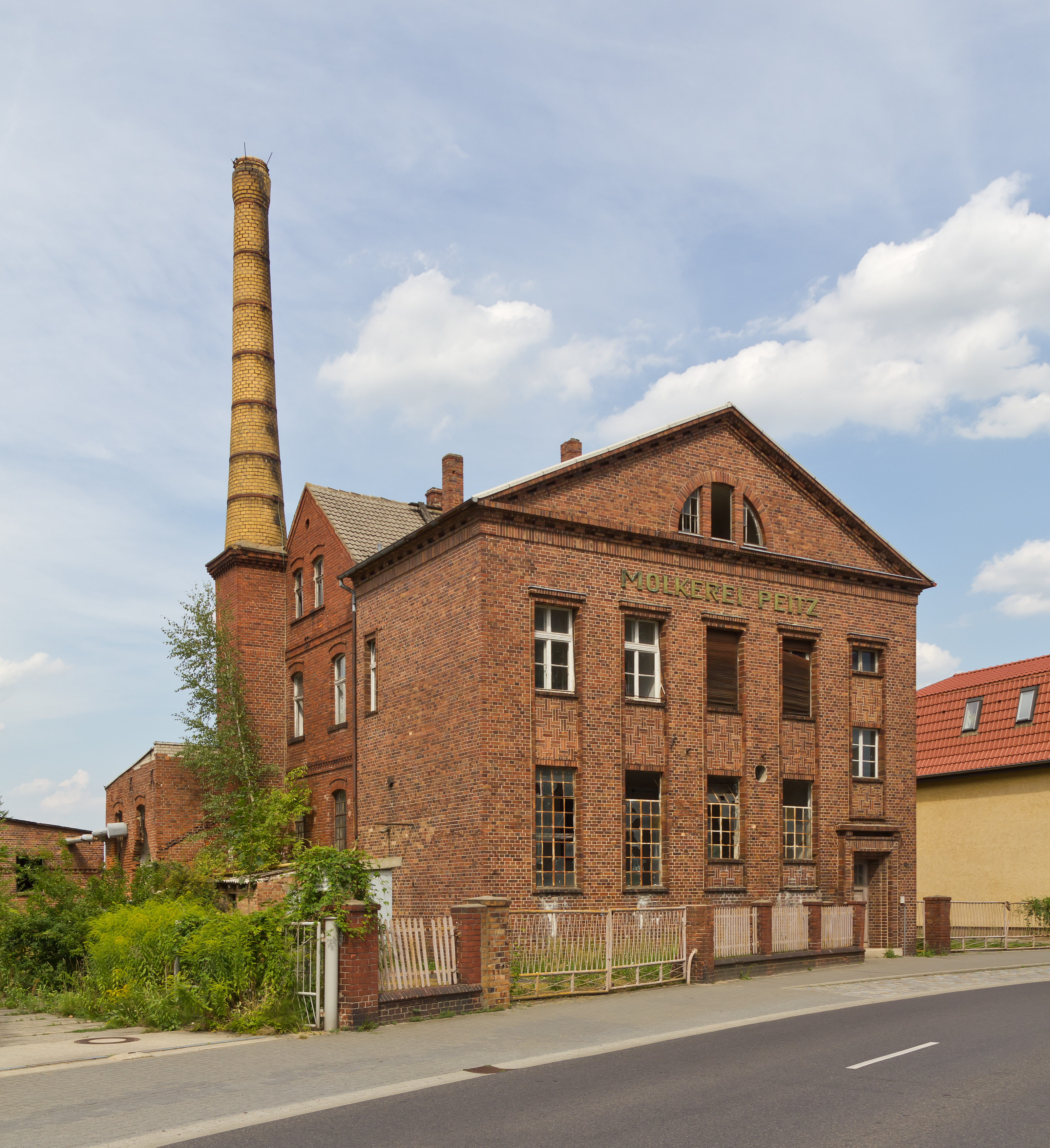 Former dairy in Peitz, Brandenburg, Germany